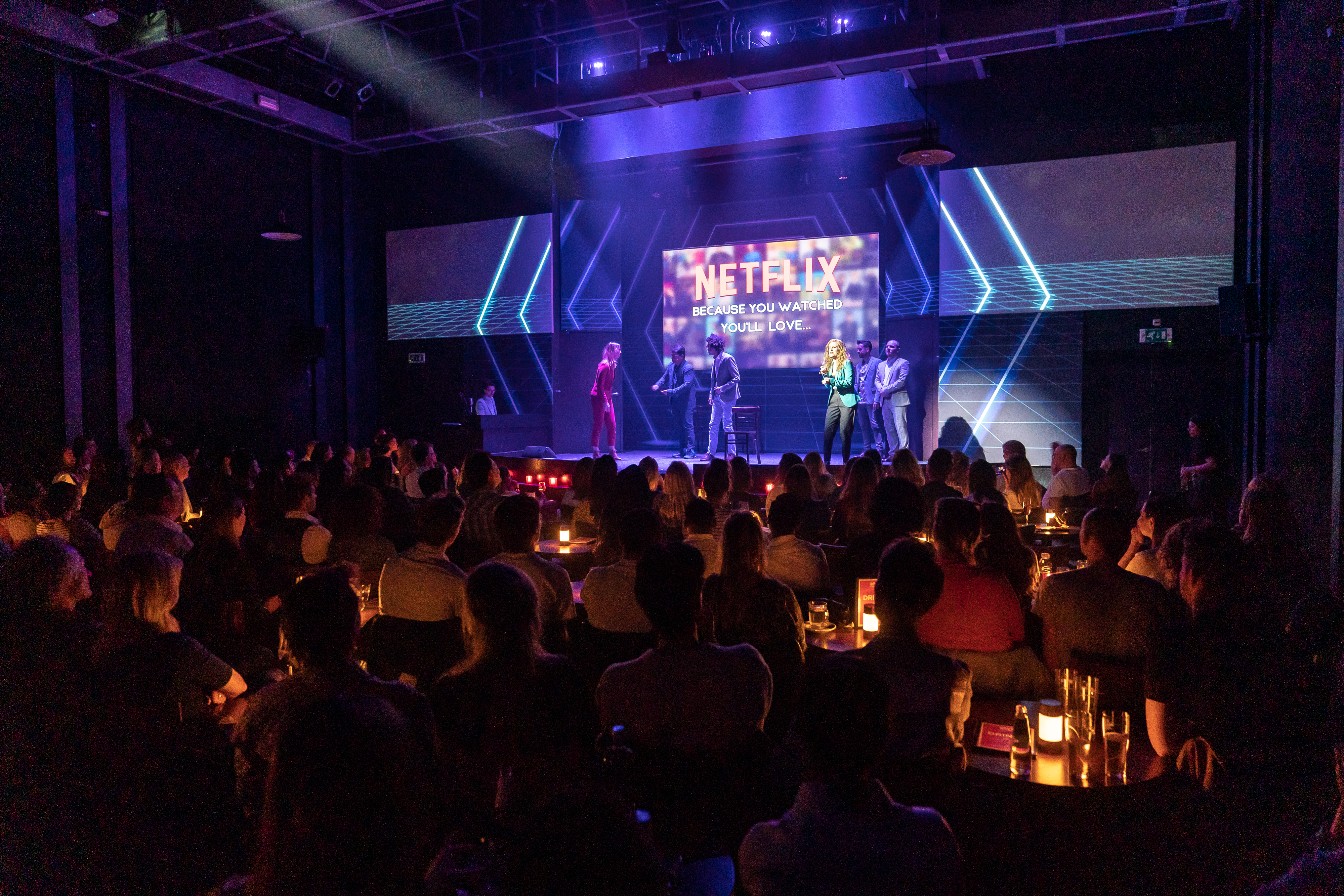 Boom Chicago's stage and theater for "The Future is Here...And it is Slightly Annoying"